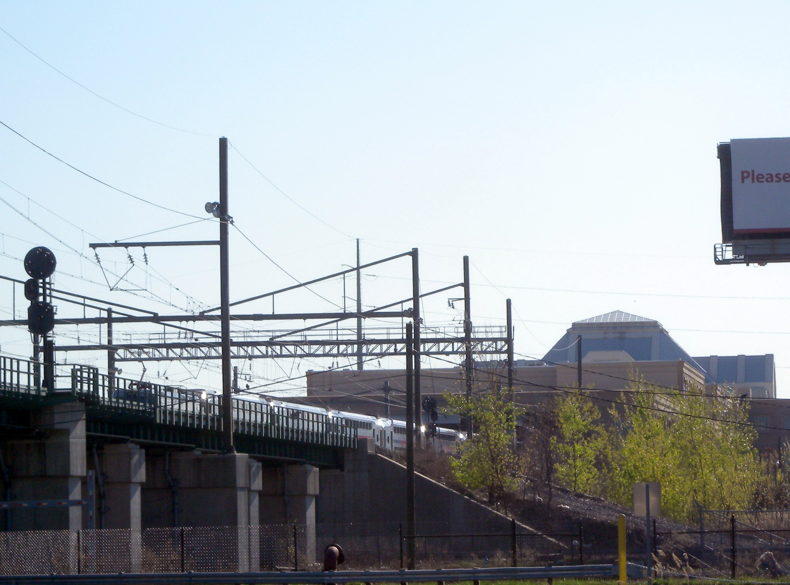 Looking southwest at Secaucus Junction Station from County Road 653 on a sunny afternoon.